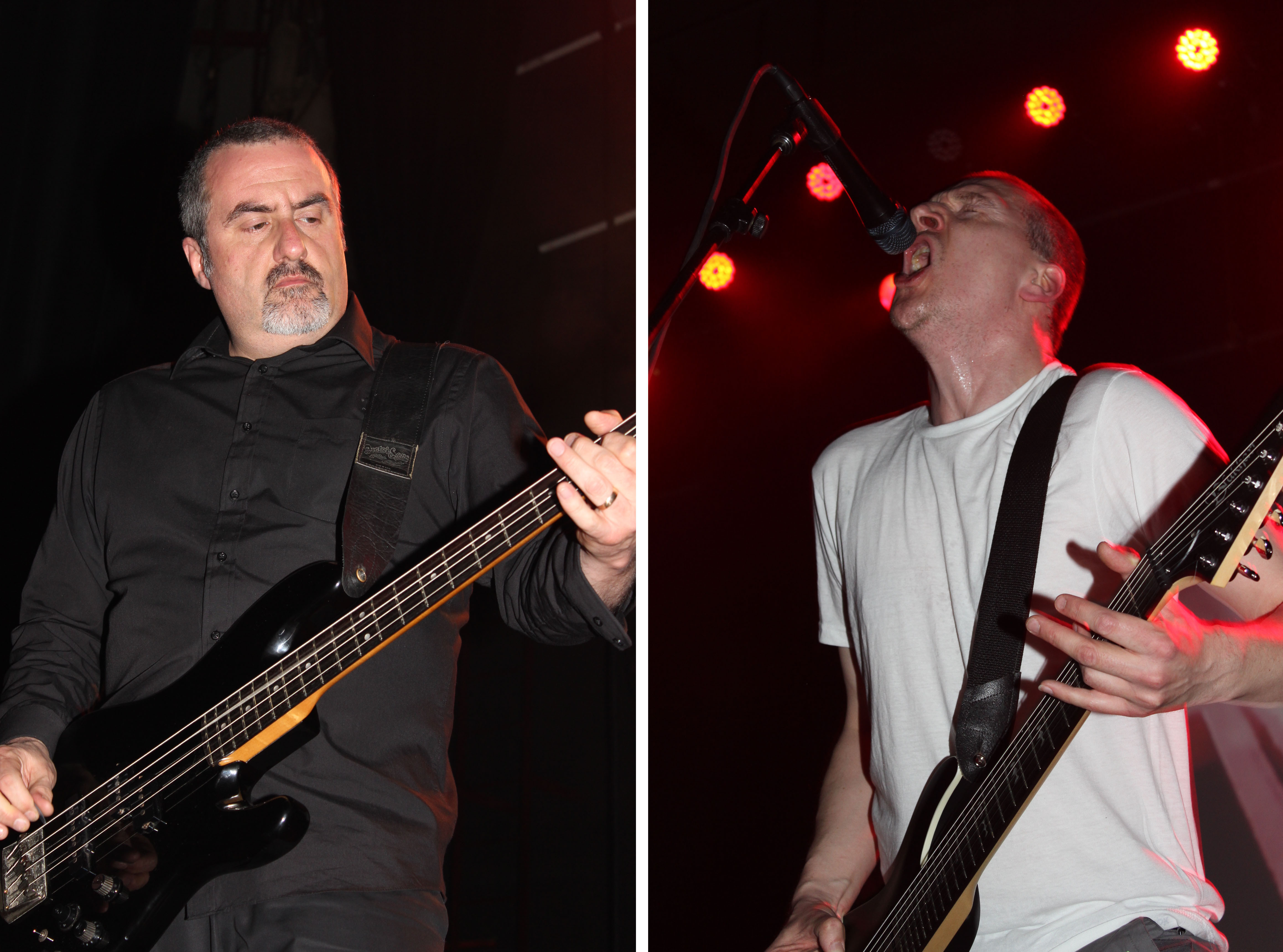 Godflesh @ Henry Fonda Theatre 4/22/14